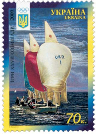 Stamp of Ukraine